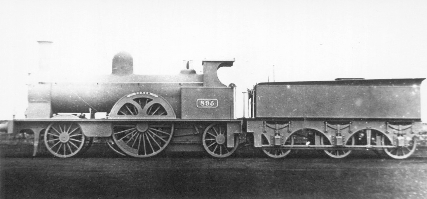 Photograph of LNWR engine No. 895 'Torch'